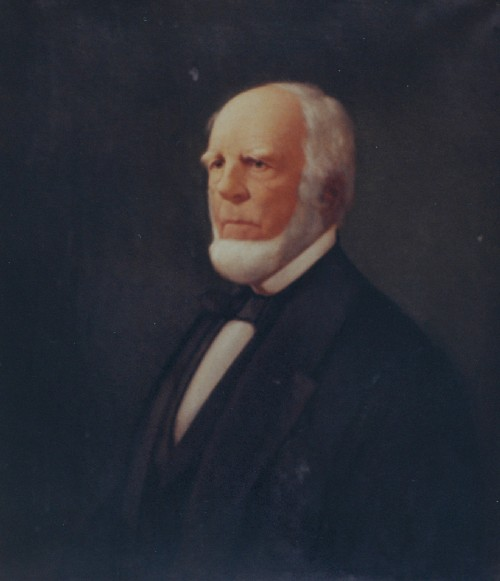 John Appleton, politician from Maine, before 1864